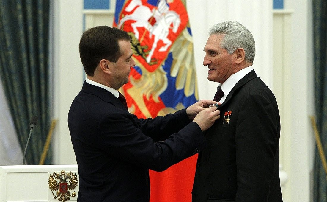 Member of the first squad of cosmonauts Boris Volynov was awarded the Order of Friendship.